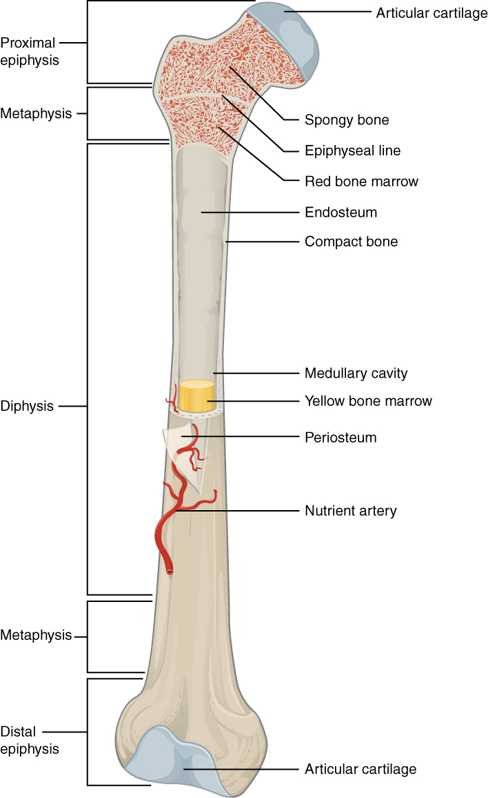 Illustration from Anatomy & Physiology, Connexions Web site. Jun 19, 2013.